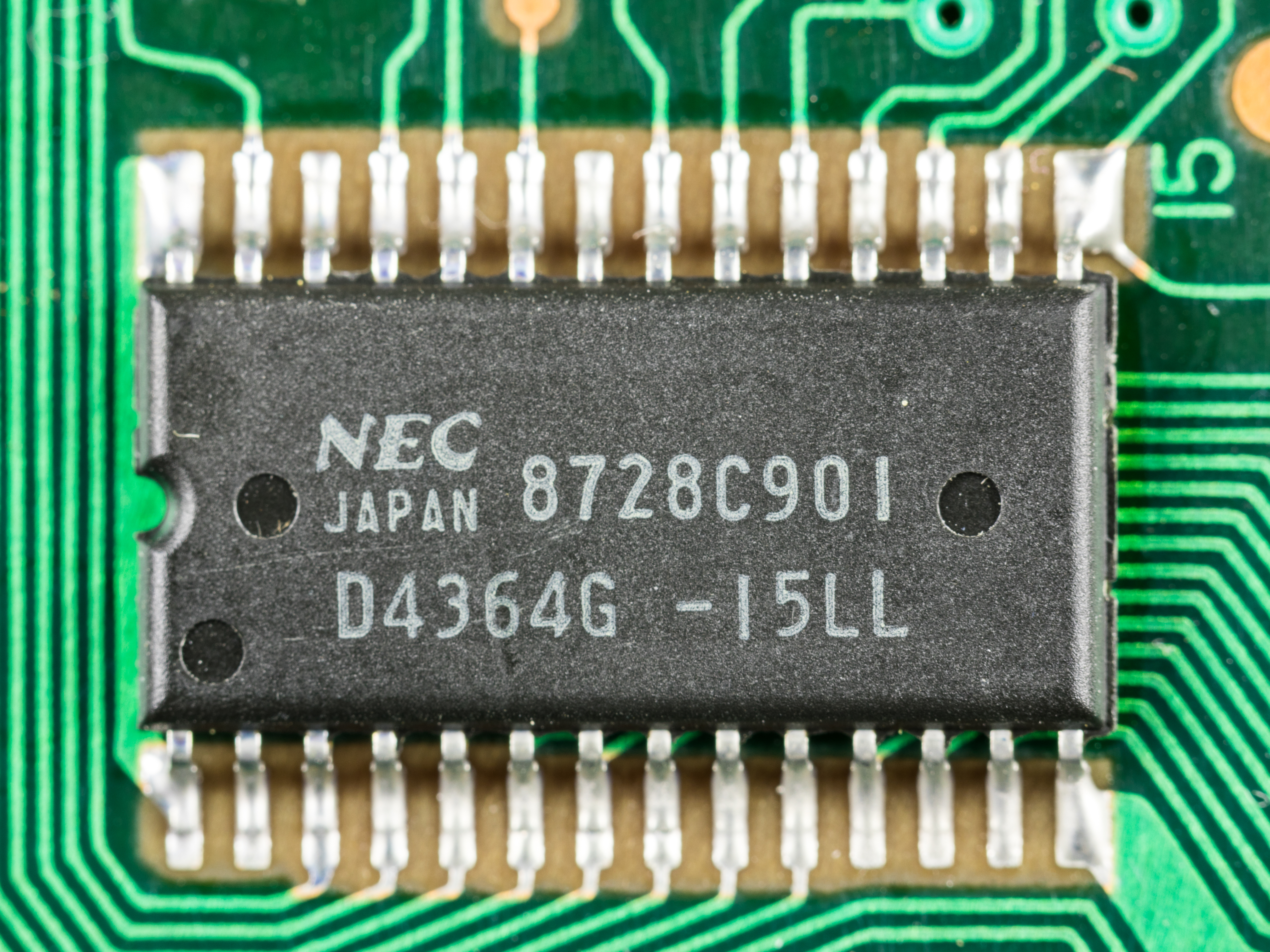 Casio fx-8000G - NEC D4364G - µPD4364 - 8192 x 8 Bit Static CMOS RAM